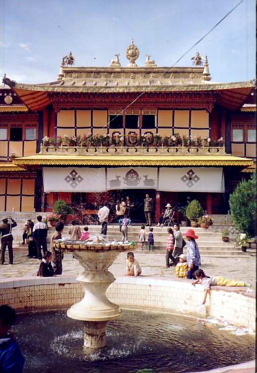 I took this photo in August, 1993. John Hill 11:20, 28 January 2007 (UTC)